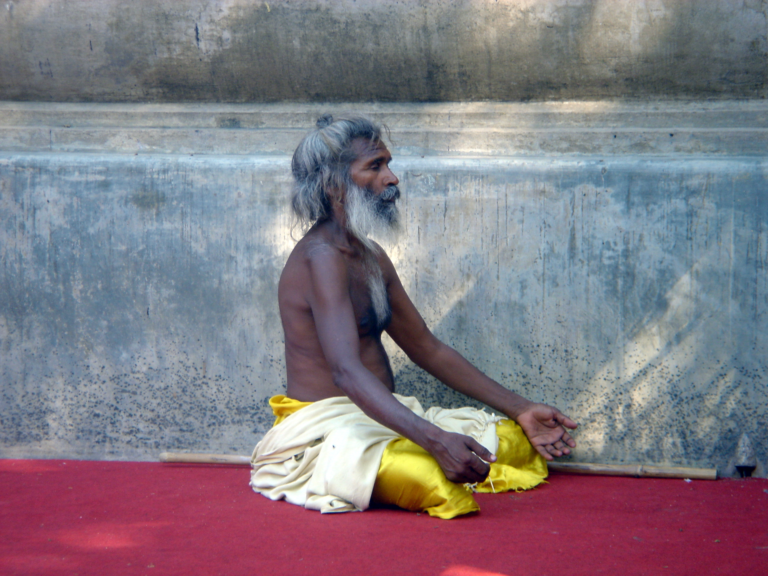 A holy man in medidation near Mahabodhi Temple, Bodh Gaya, India.